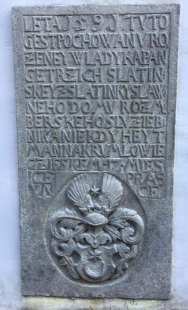 Headstone on the wall Horní č. 159, Český Krumlov from 1591.